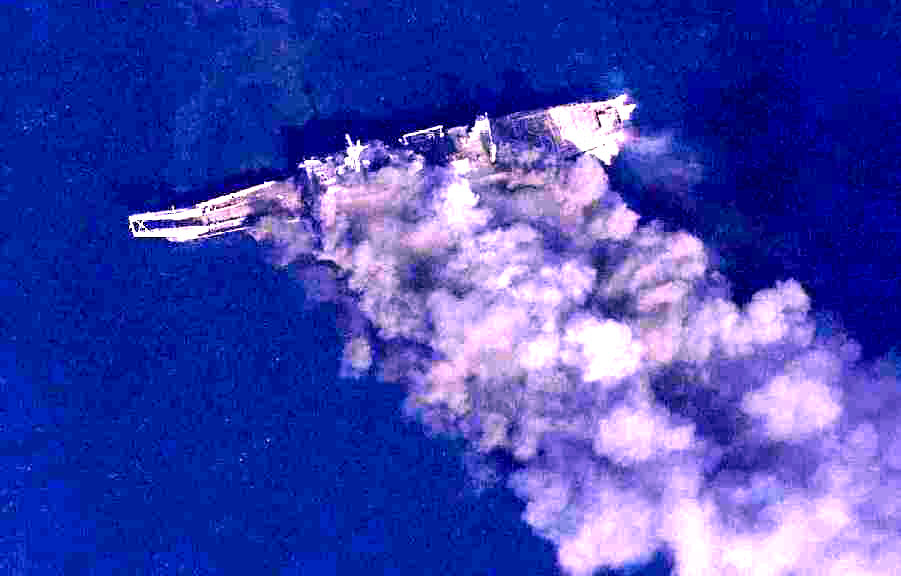 Ex-USS La Moure County (LST-1194), overhead view showing the ship later in the exercise, burning after several missile hits. She was eventually finished off by submarine-launched torpedoes.